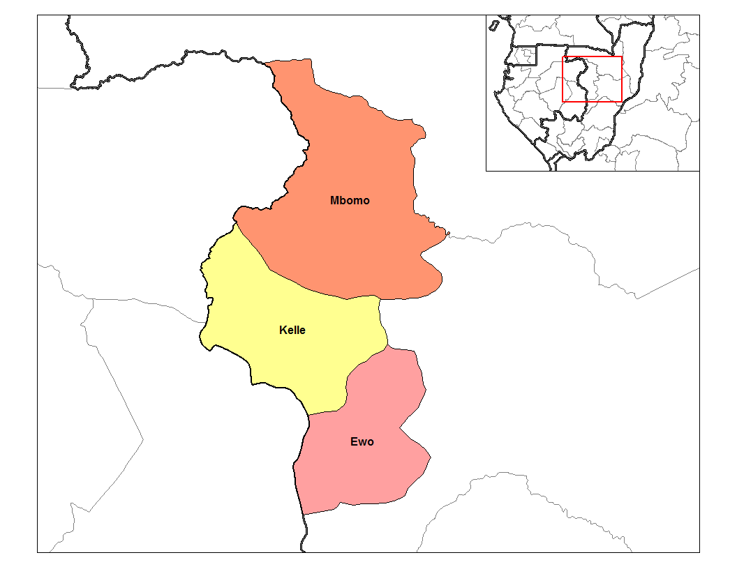 Map of the districts of Cuvette-Ouest region in the Republic of the Congo. Created by Rarelibra 13:42, 12 September 2006 (UTC) for public domain use, using MapInfo Professional v8.5 and various mapping resources.